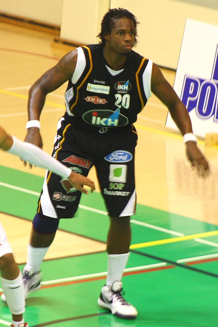 Basketball player Jeremiah Wood playing for Karhu against Pyrintö